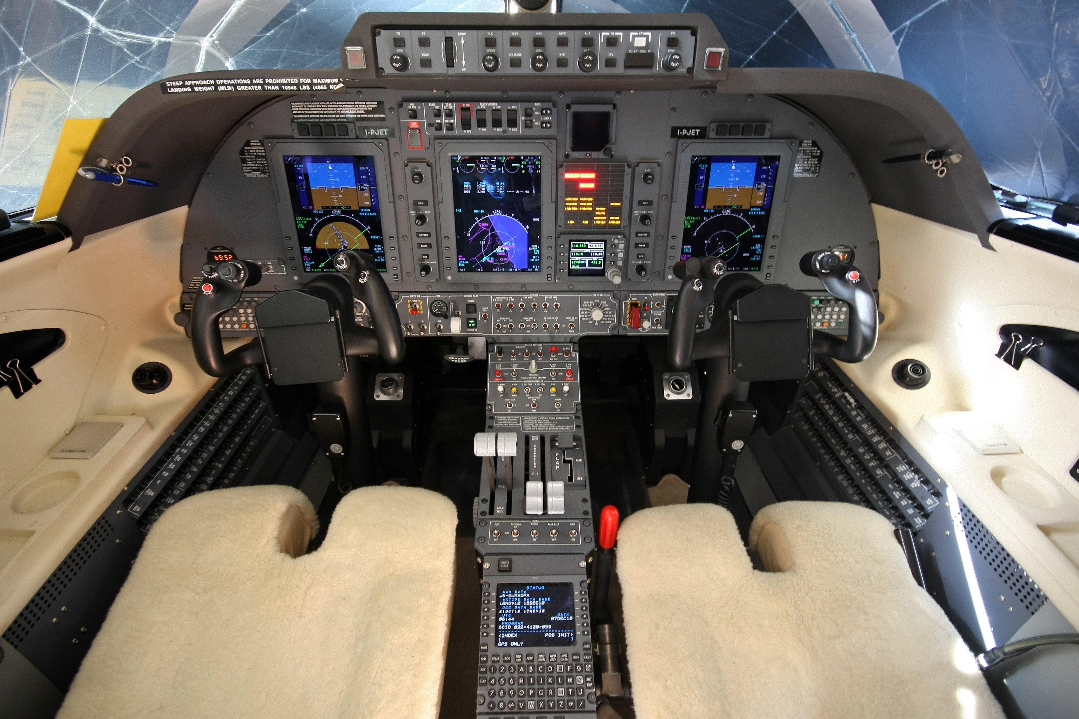 Cockpit of Piaggio Avanti II aircraft. taken at MEBA show, Dubai 2010.